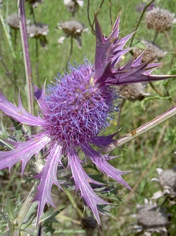 "Purple Pineapple Weed" (Eryngium leavenworthii - Common Name: Leavenworth's Eryngo) taken in the Texas Hill Country